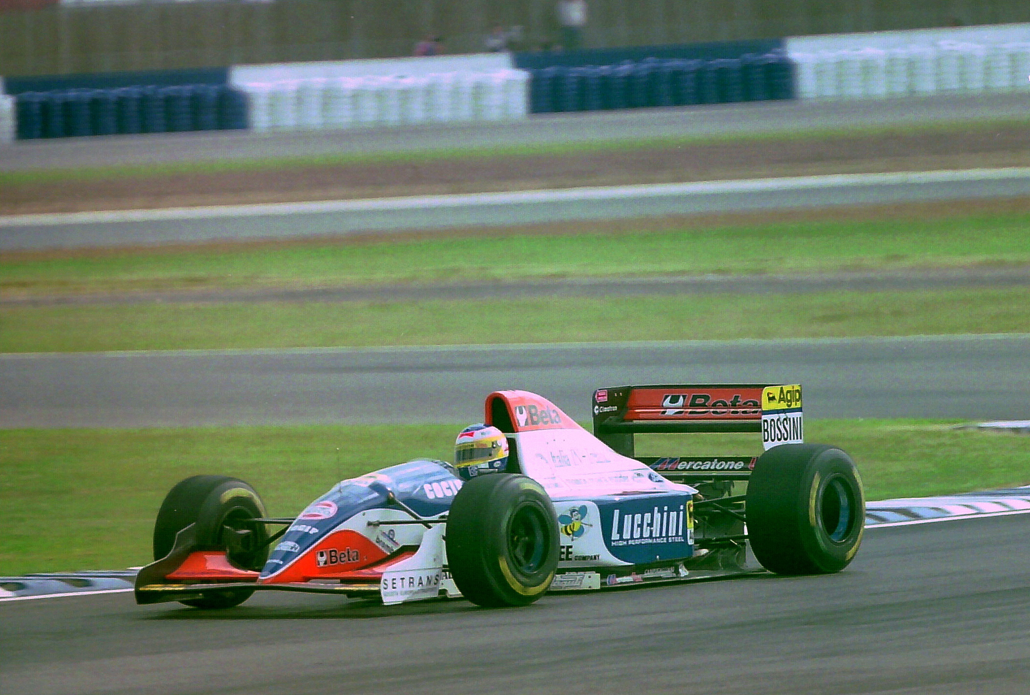 Michele Alboreto - Minardi M194 at the 1994 British Grand Prix